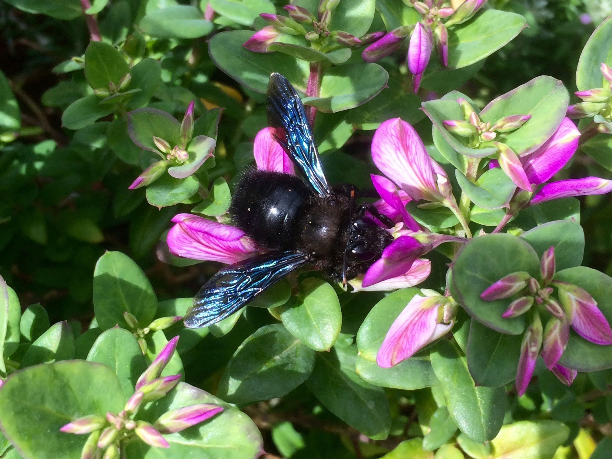 Xylocopa violacea in Barcelona